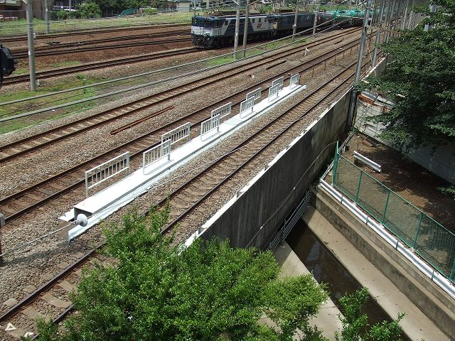 新鶴見操車場の下をくぐる二ヶ領用水（川崎堀） 撮影日：2006年 7月13日 撮影地：二ヶ領用水（神奈川県川崎市幸区鹿島田） 撮影者：cory 出典： Nikaryo-yosui passed under the Shin-Tsurumi yard of railway. Date: 2006-07-13 (Jul 13, 2006) Place: Kashimada Saiwai Kawasaki Kanagawa, Japan. Author: ISAKA Yoji (cory)